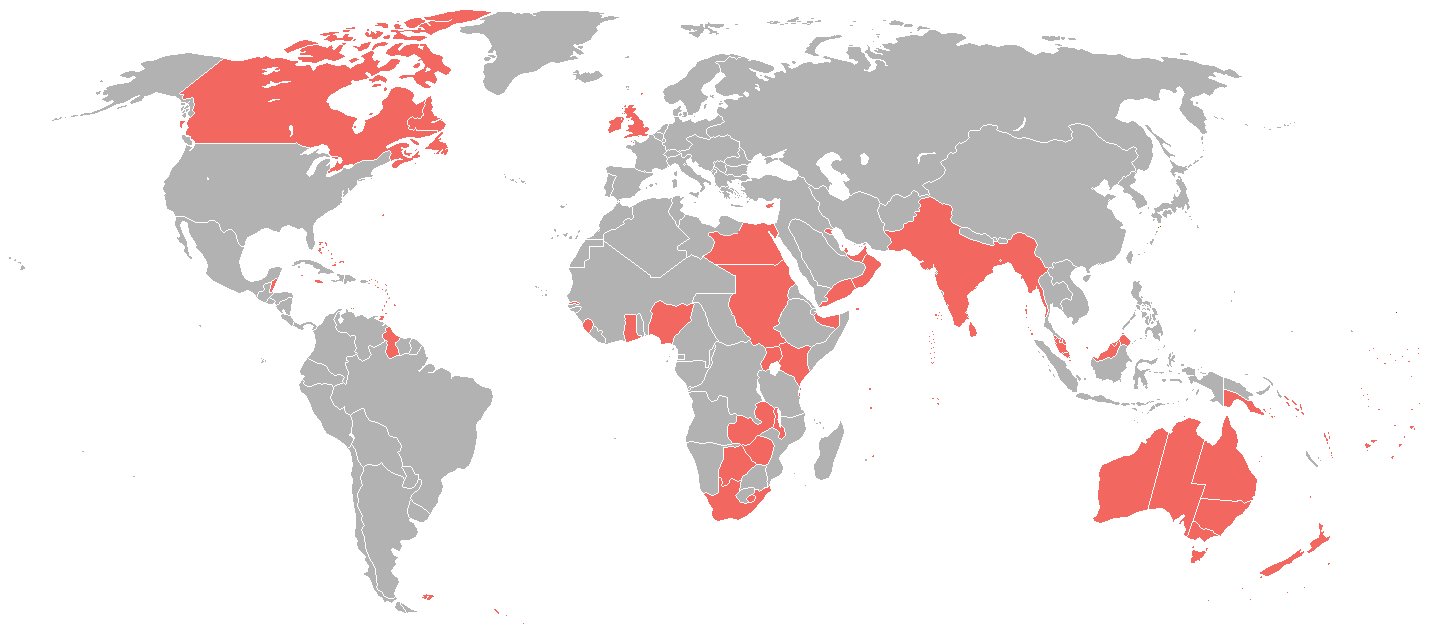 A map of the British Empire as it was in 1898, prior to the Second Boer War (1899-1902).